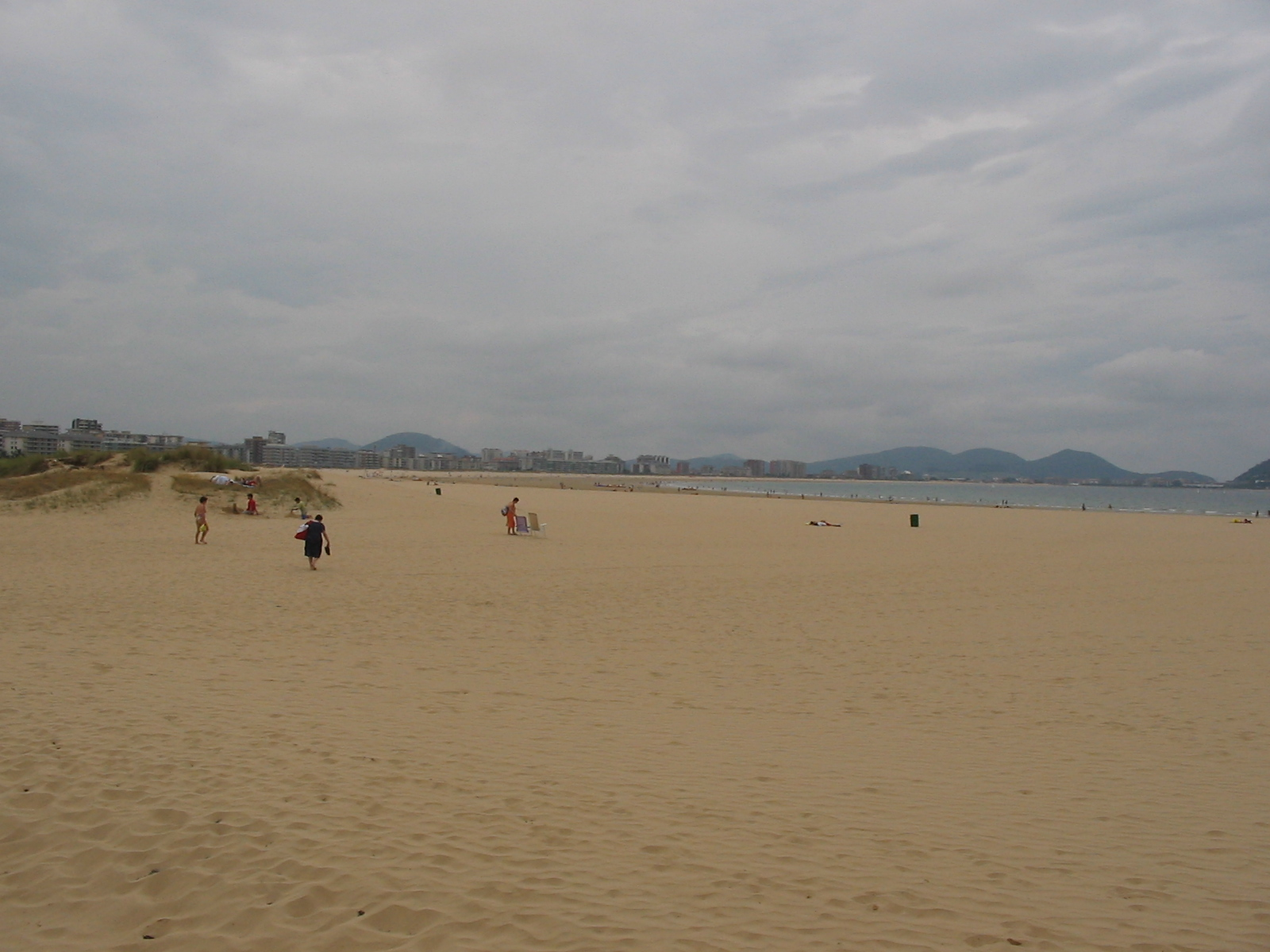 La Salvé beach, Laredo (Cantabria)